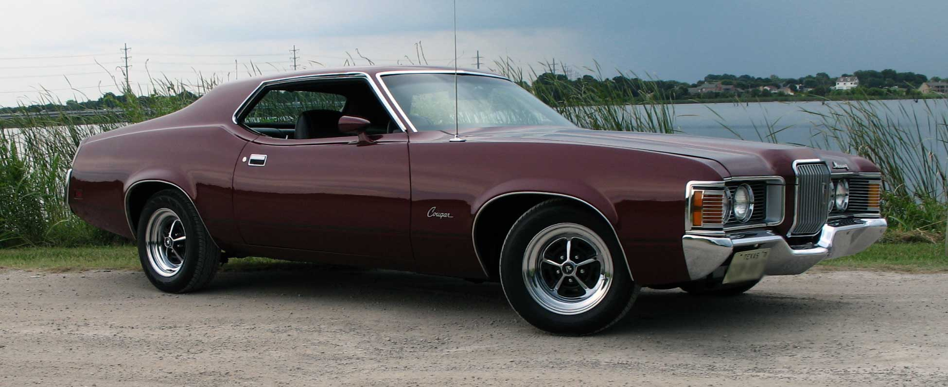 1971 Mercury Cougar.